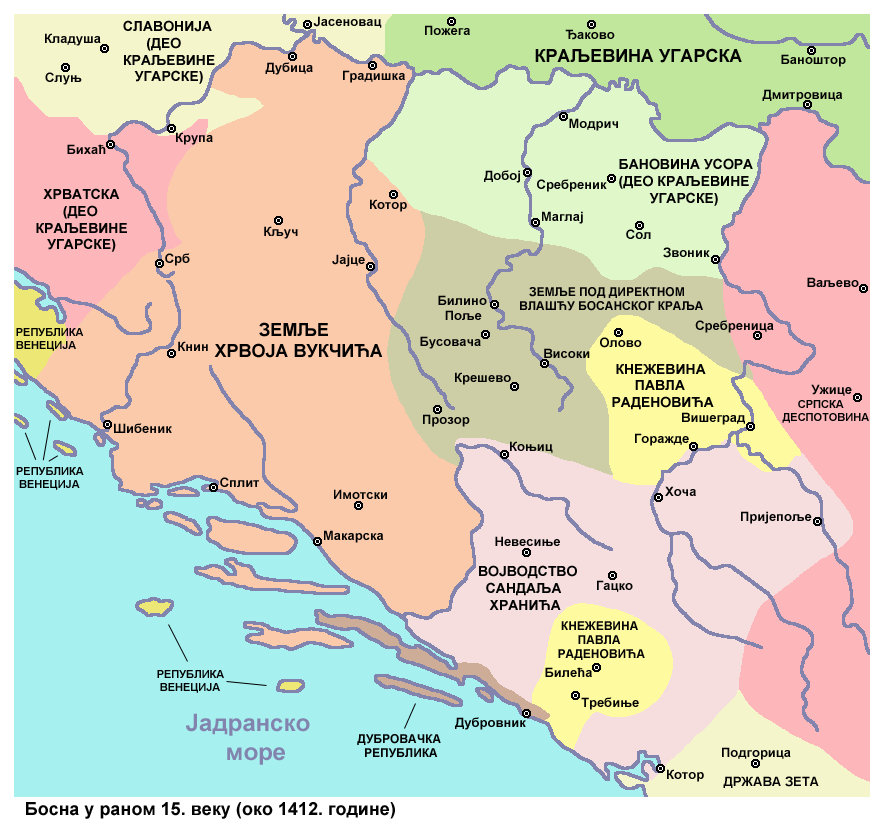 Bosnia in the early 15th century (around 1412) - Lands of Hrvoje Vukčić, Duchy of Sandalj Hranić, Principality of Pavle Radenović, Banovina Usora and Lands under the direct authority of the Bosnian king.